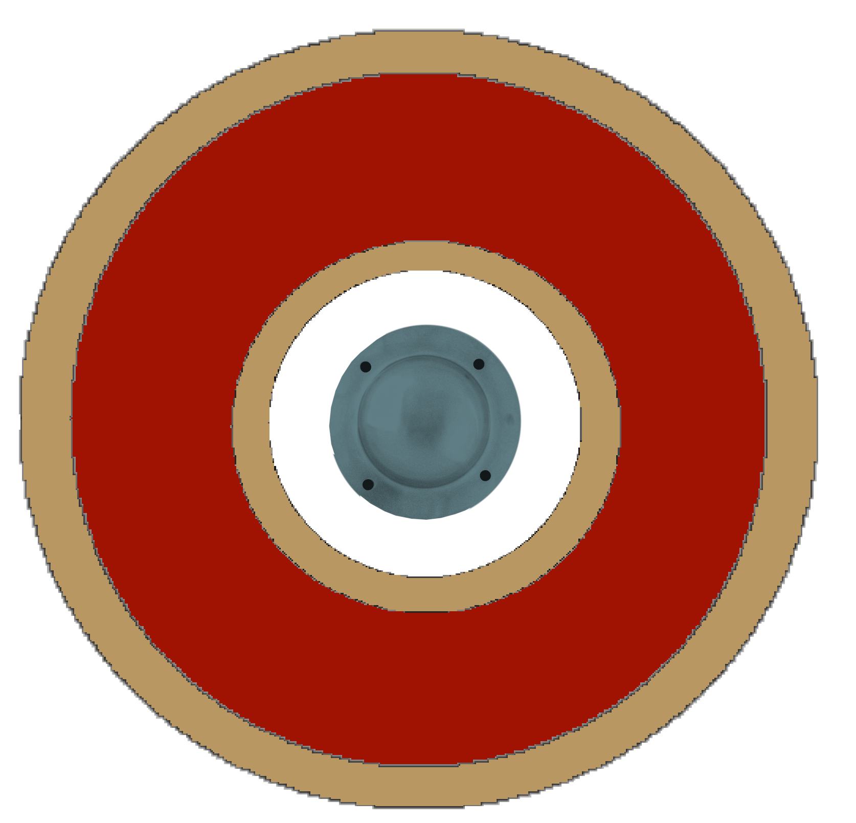 Shield pattern o.t. Divitenses seniores, the third of the legiones palatinae listed in the Magister Peditum's infantry roster; it is also assigned to his Italian command.